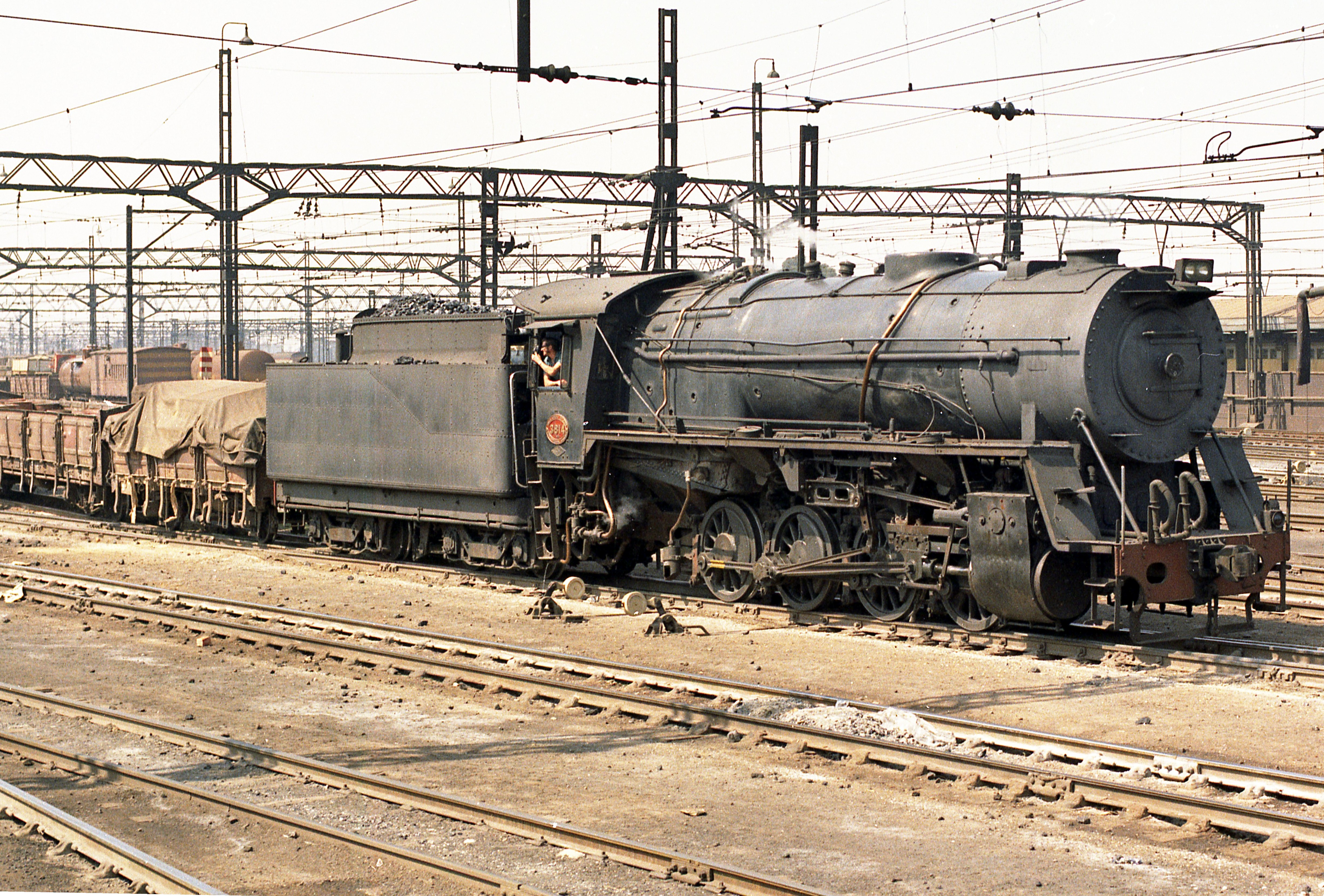 SAR Class S1 3814 (0-8-0)Location: Germiston yard